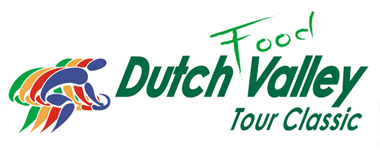 This is a logo of the cycling event, The Dutch Food Valley Classic, it is a low resolution image that is being used on Wikipedia to illustrate the article on the event.